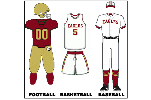 Bridgewater College athletics logo